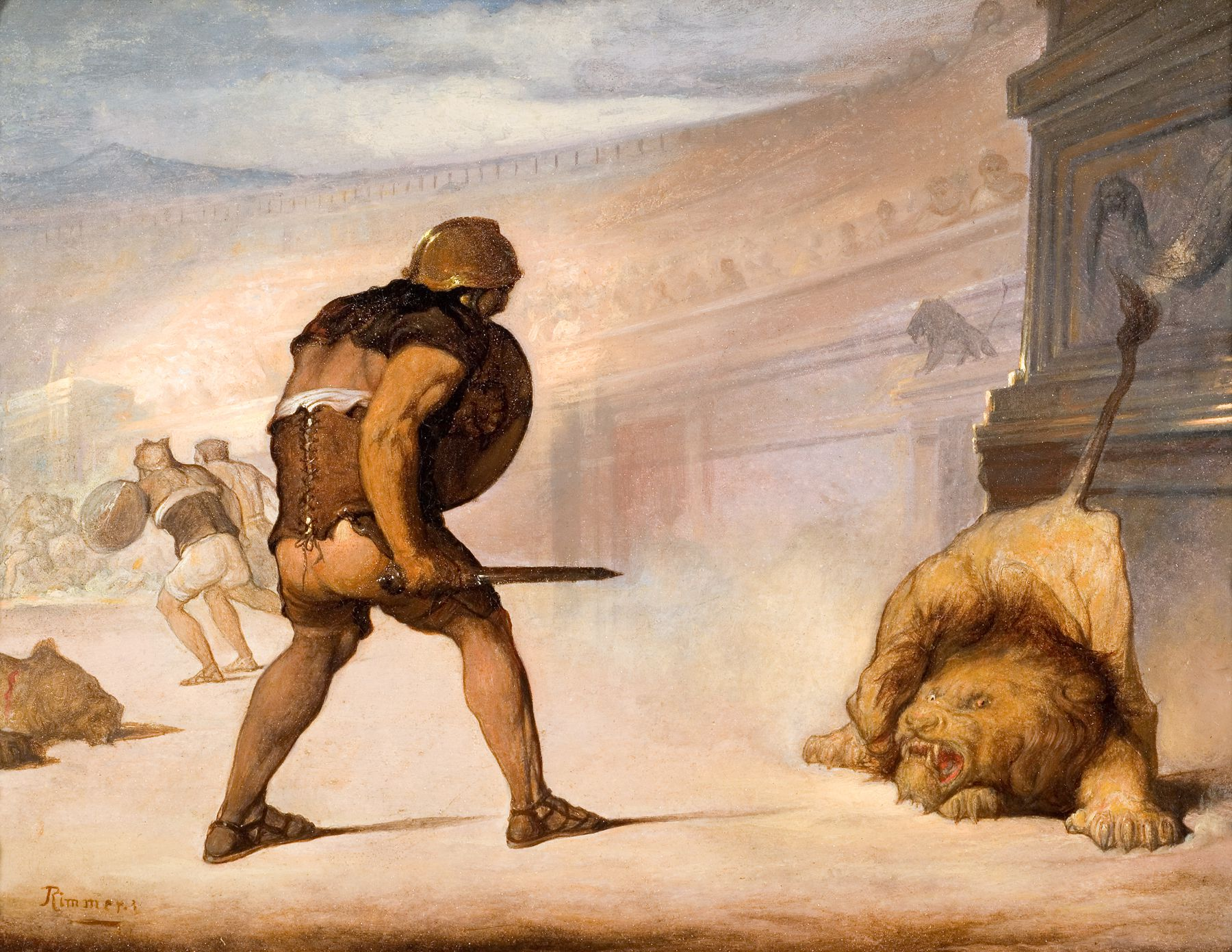 Lion in the Arena by William Rimmer, circa 1873-1876, oil on pressed wood pulp board, 9 5/16 x 12 1/4 in. (23.7 x 31.1 cm), Reynolda House Museum of American Art